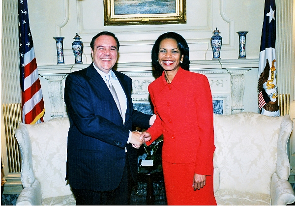 US Secretary of State Condoleezza Rice greets Clemente Mastella, Minister of Justice of the Italian RepublicWashington, DC